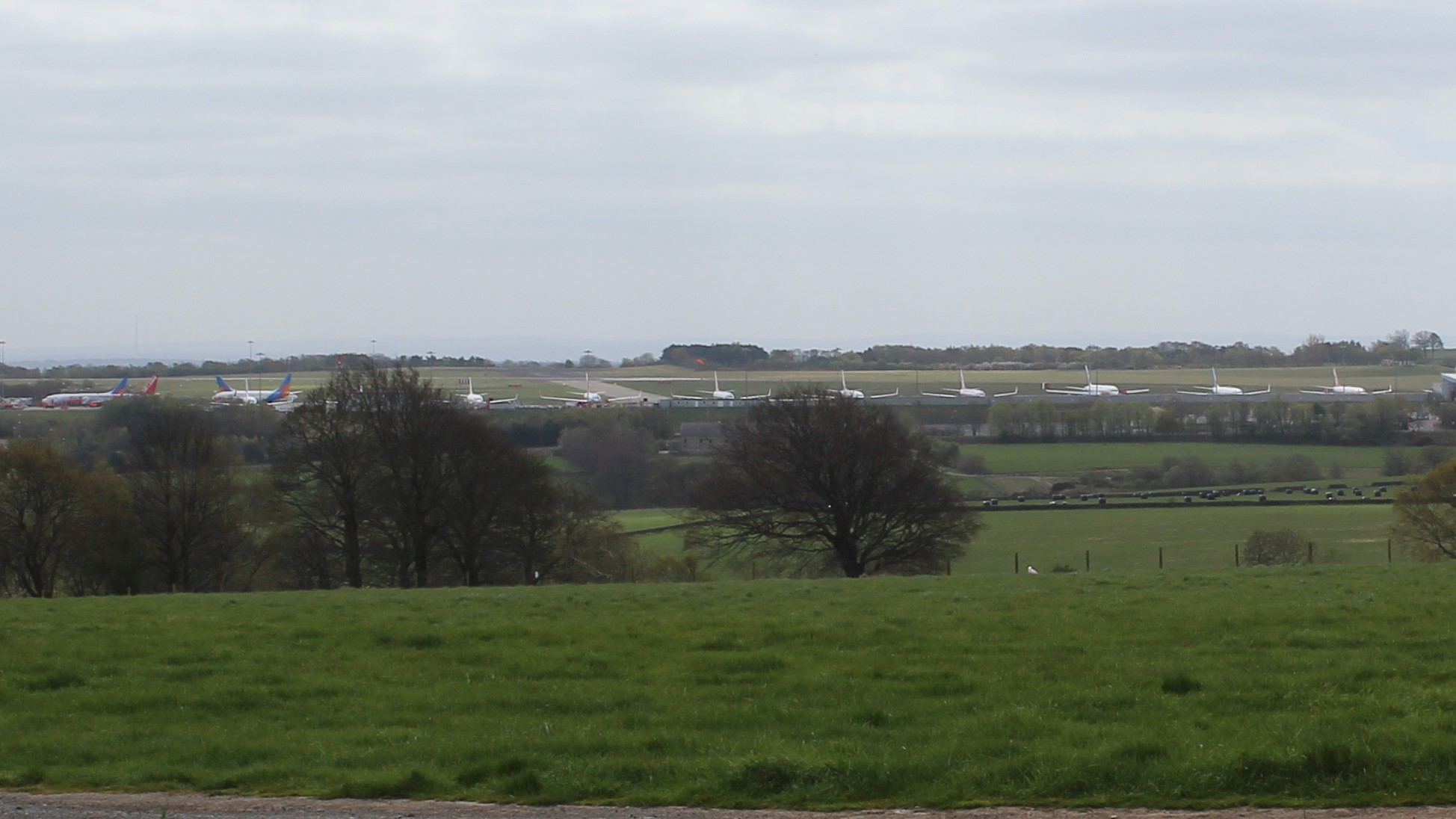 A picture of grounded aeroplanes at Leeds Bradford Airport during the 2019-20 coronavirus pandemic